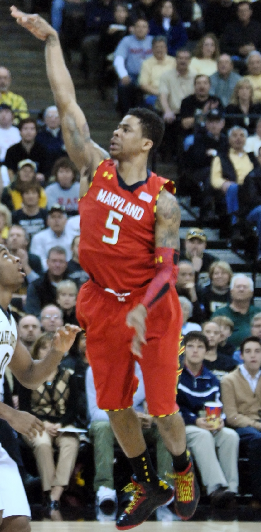 Nick Faust fires a jumper against the Deacs